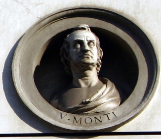 Vincenzo Monti. Detail from the series of decorative busts (portraying "distinguished Italians") on the facade Palazzo Brentani, in via Manzoni street at Milan (1829/30). Picture by Giovanni Dall'Orto, April 14 2007.